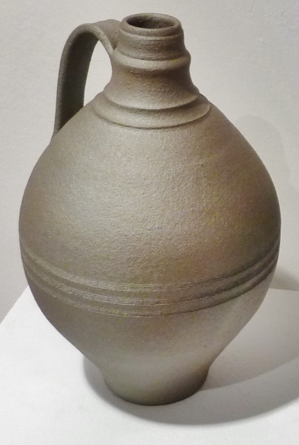 Traditional pottery (21st century) from Faro (Oviedo, Asturias), Spain.